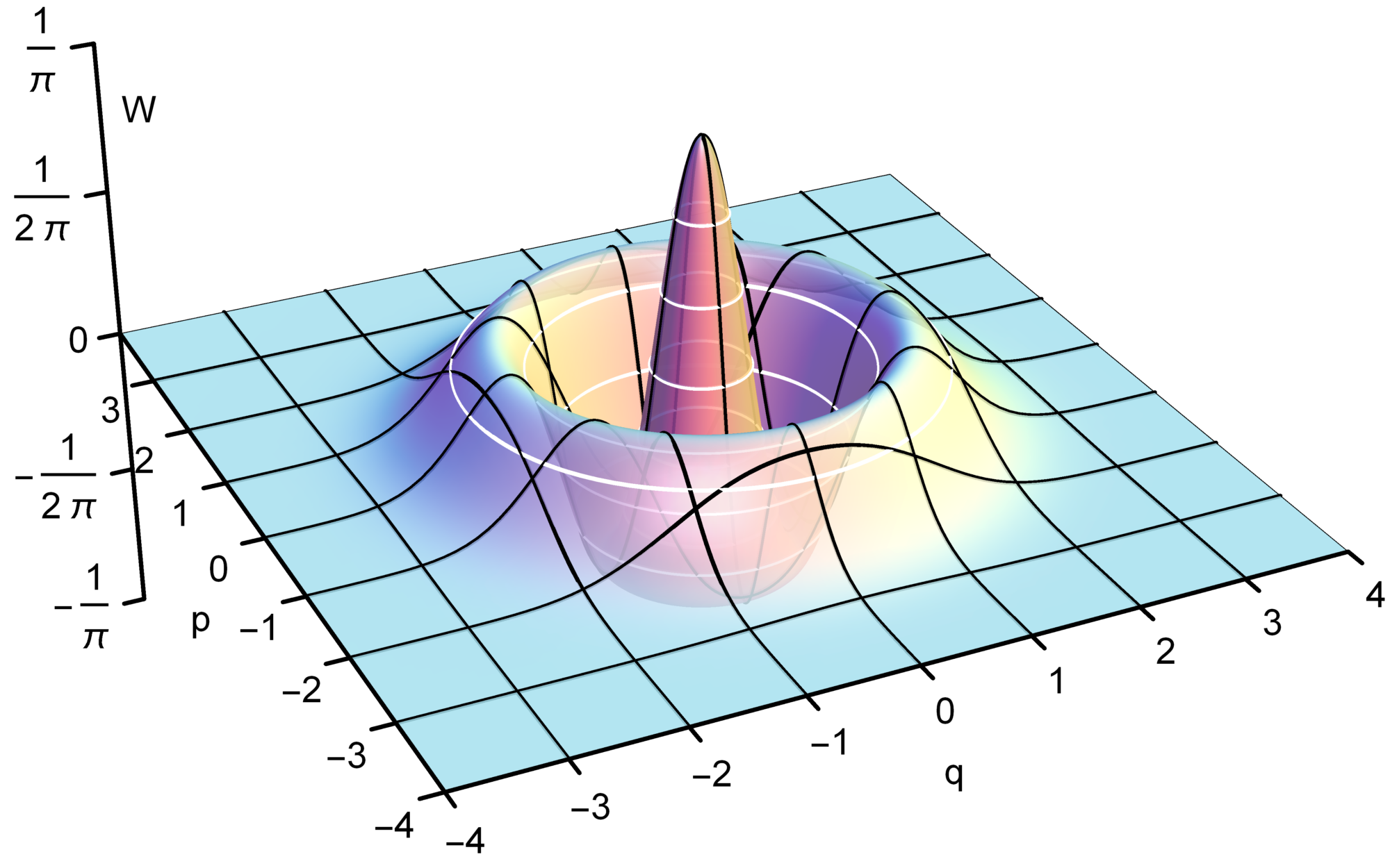 Wigner function of a Fock state with photon number n=2.